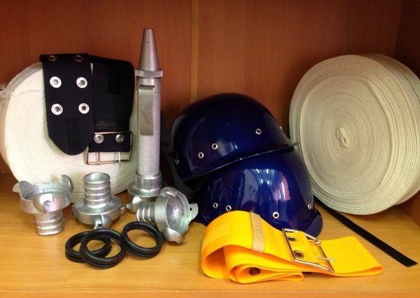 Снаряжение для пожарно-прикладной спорта: пожарные рукава, ствол, каски и ремни.